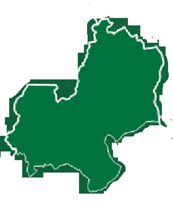 edo state map